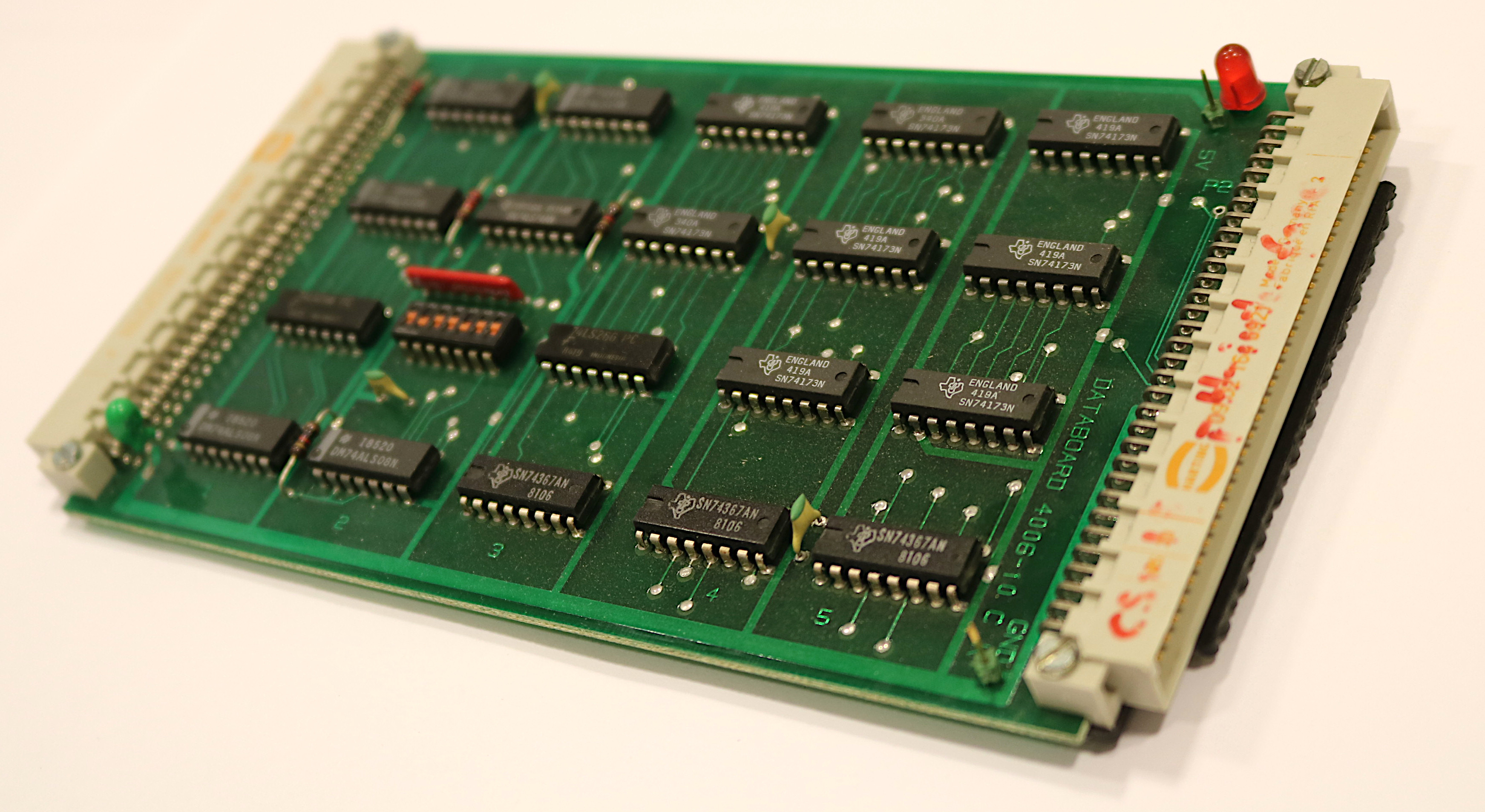 This is an 4006-10 I/O card for the DataBoard 4680 bus. It has 16 input ports and 32 output ports for general purpose I/O (GPIO).